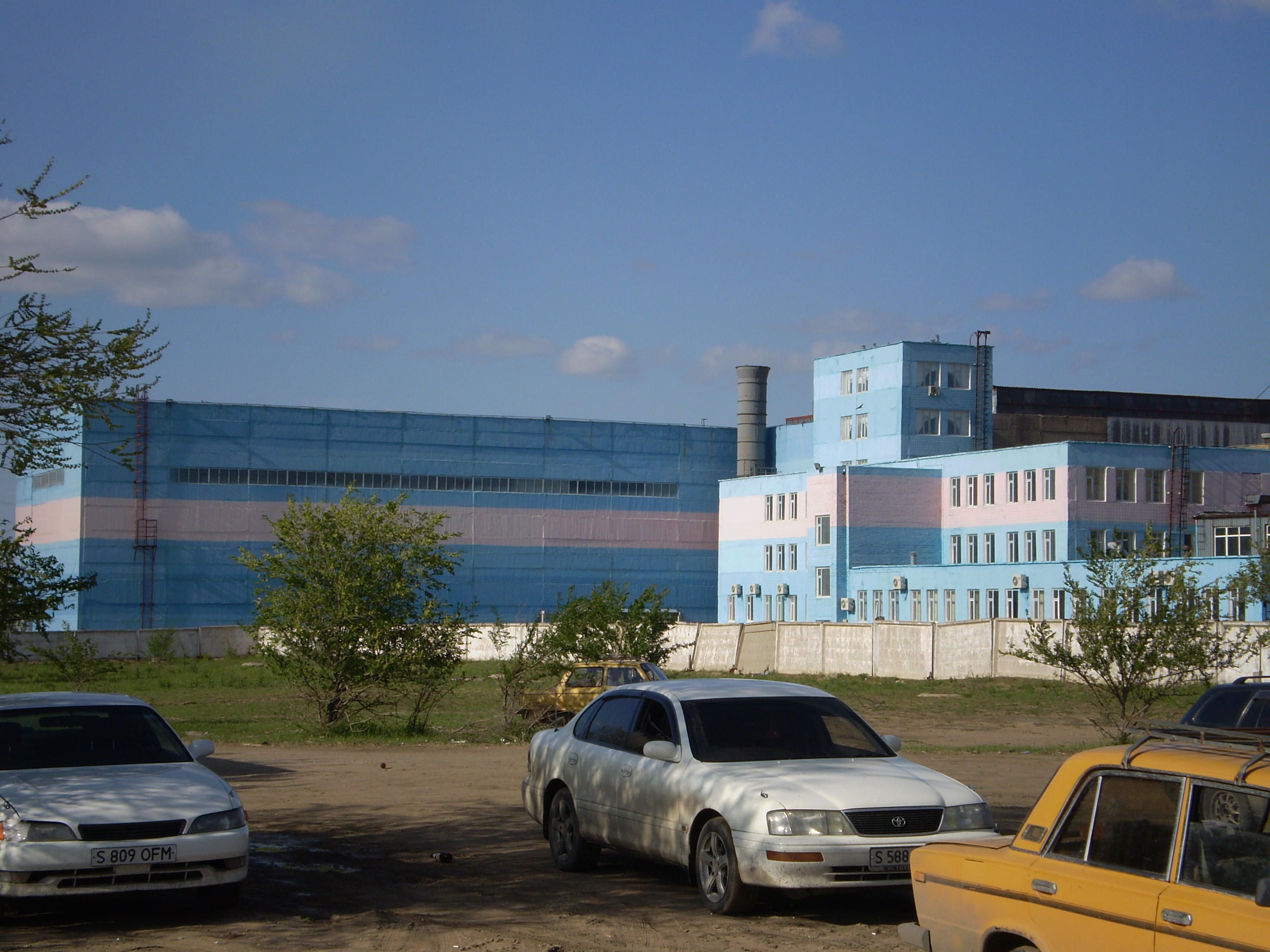 Pavlodar Tracktor Factory, new buildings